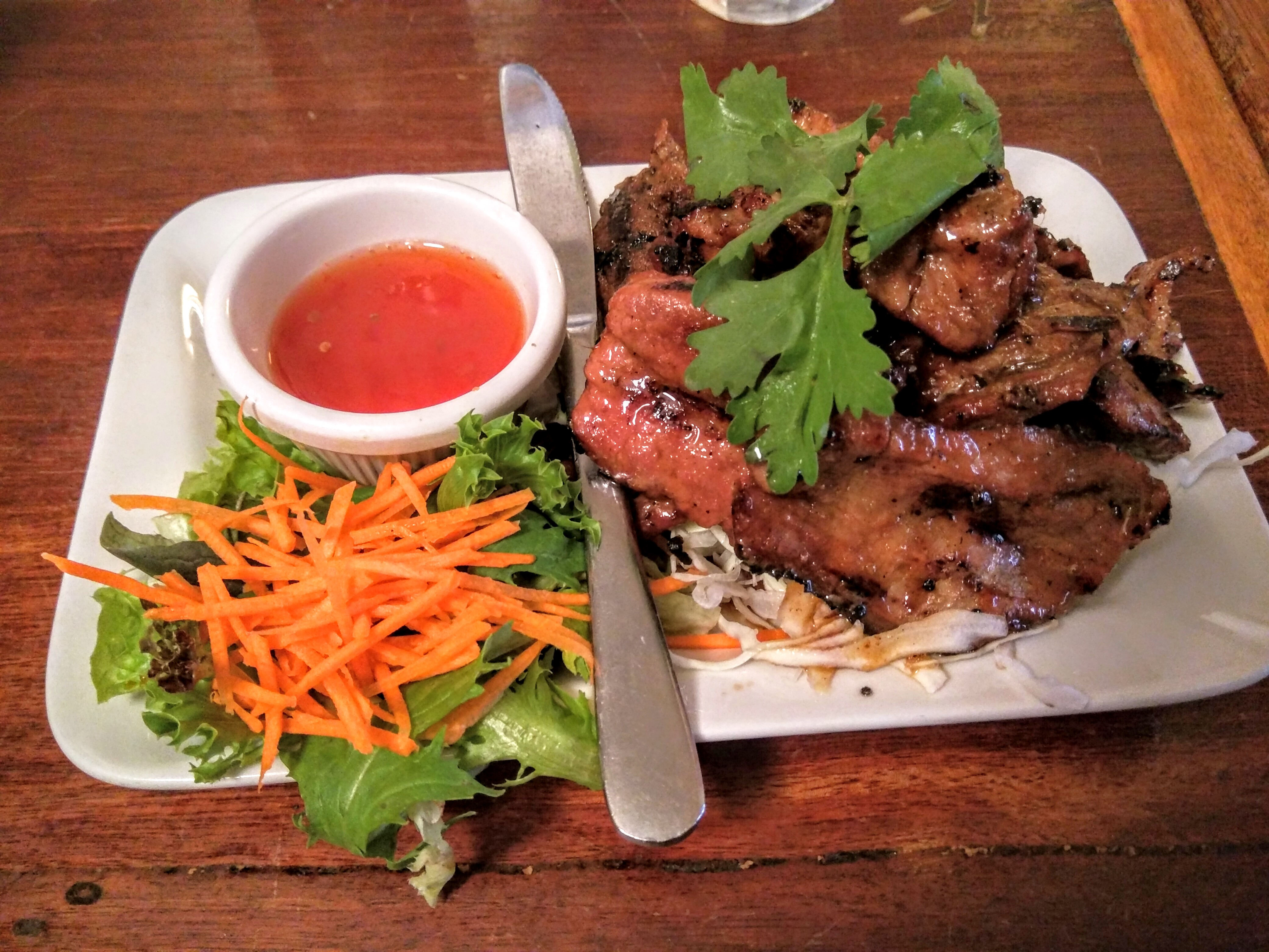 BBQ pork meal in Thai restaurant in Sydney